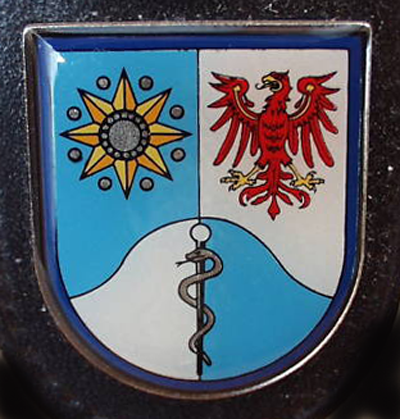 Staff & HQ Company Medical Bigade OST